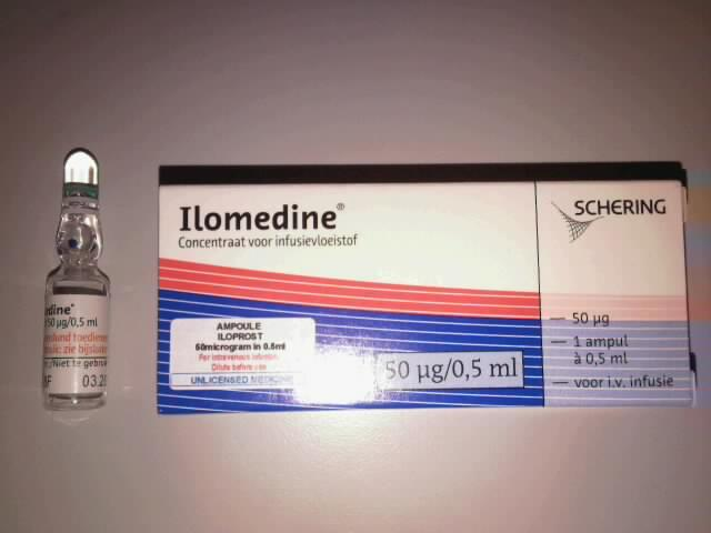 Vial and box of IV Iloprost